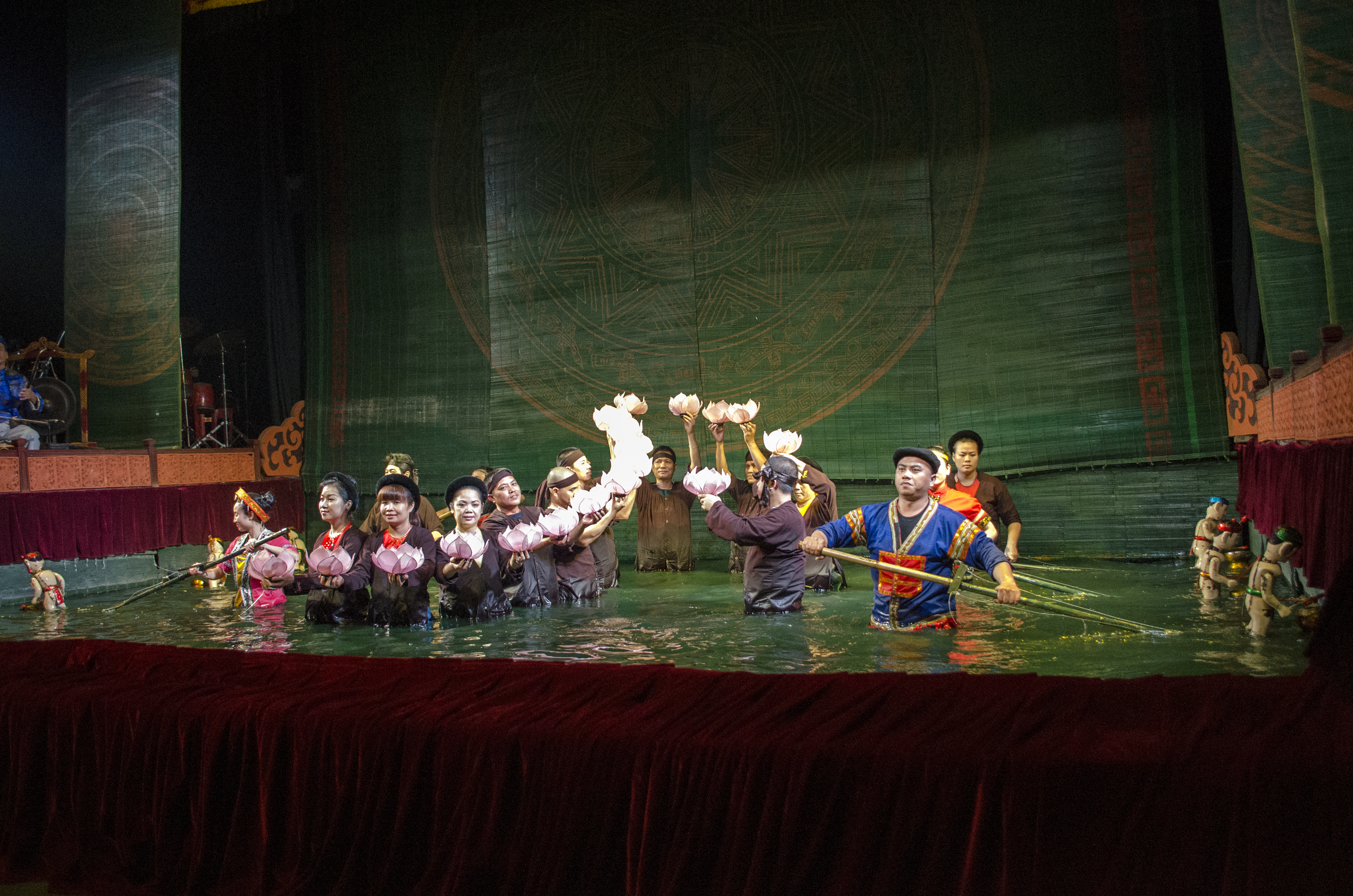 Final act of Thang Long water puppetry show